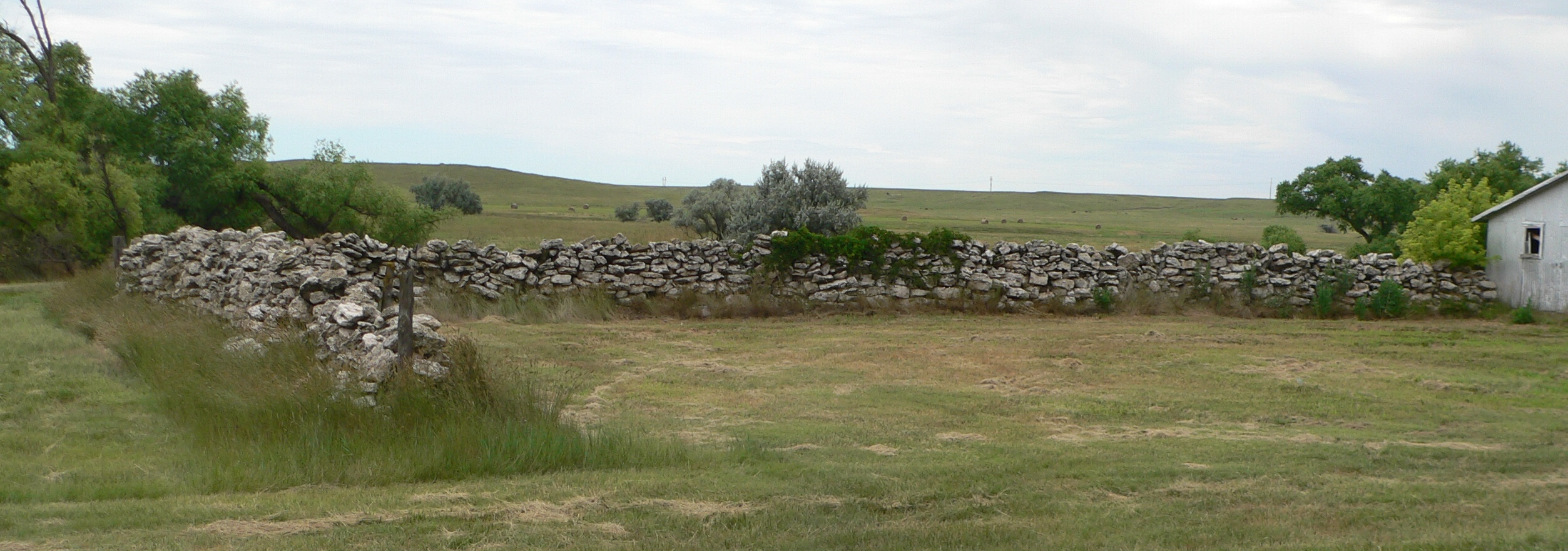 Texas Trail Stone Corral, located north of Imperial in rural Chase County, Nebraska.